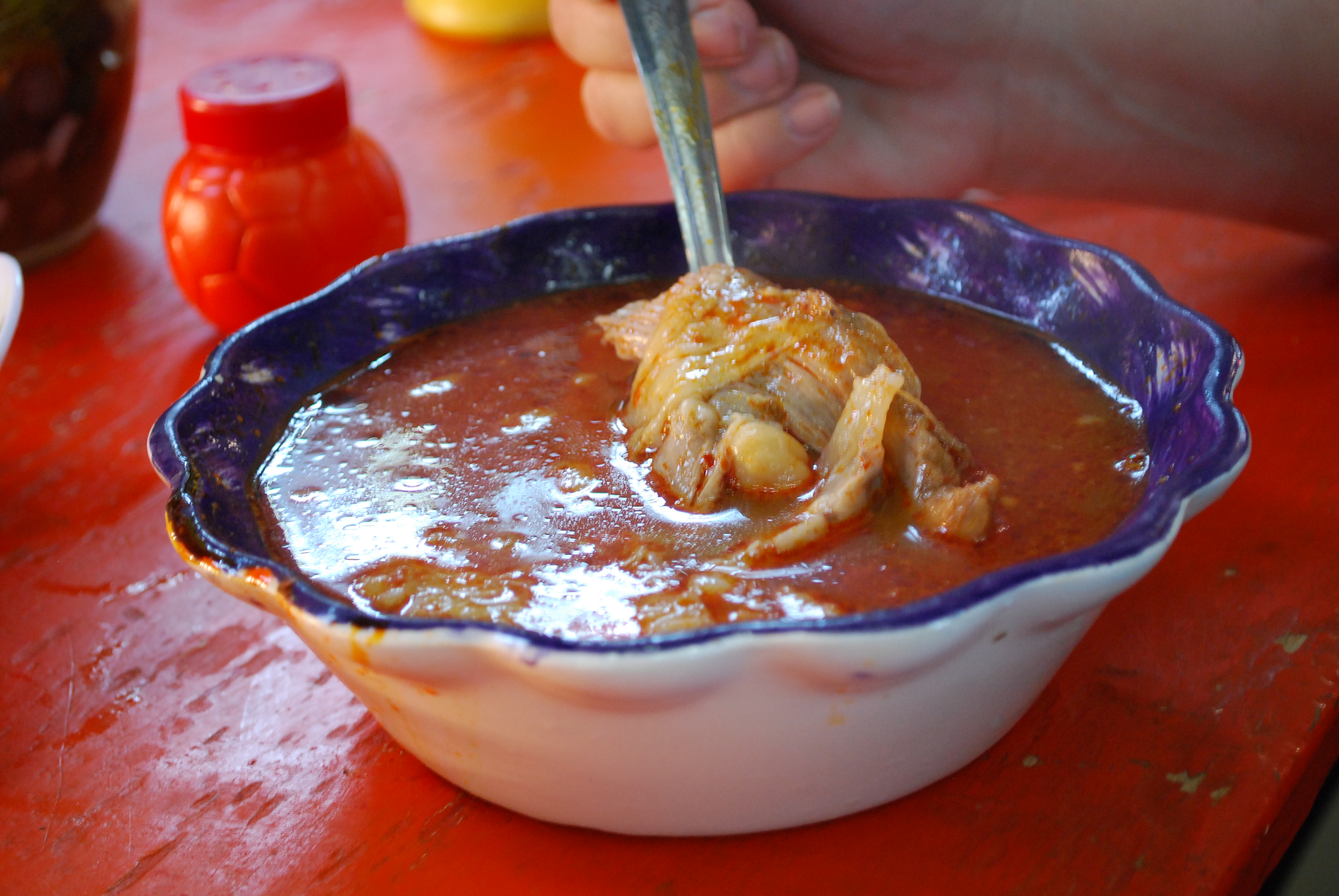 Birria as served at the Hidalgo Market in Guanajuato, Guanajuato